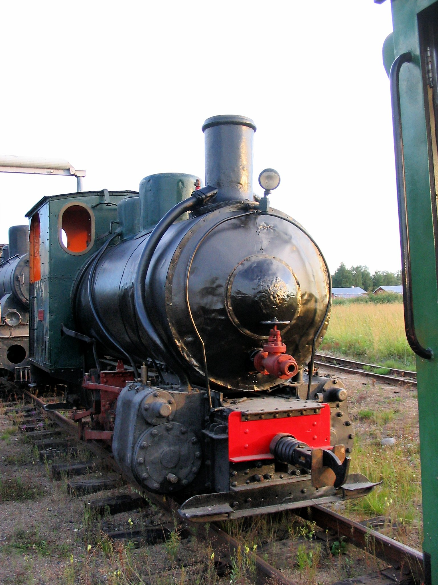 Fireless steam locomotive ÄSR (Äänekoski–Suolahti railway) 3 (Orenstein & Koppel 11990/1929, 0-6-0F, 750 mm) at Minkiö narrow gauge railway museum